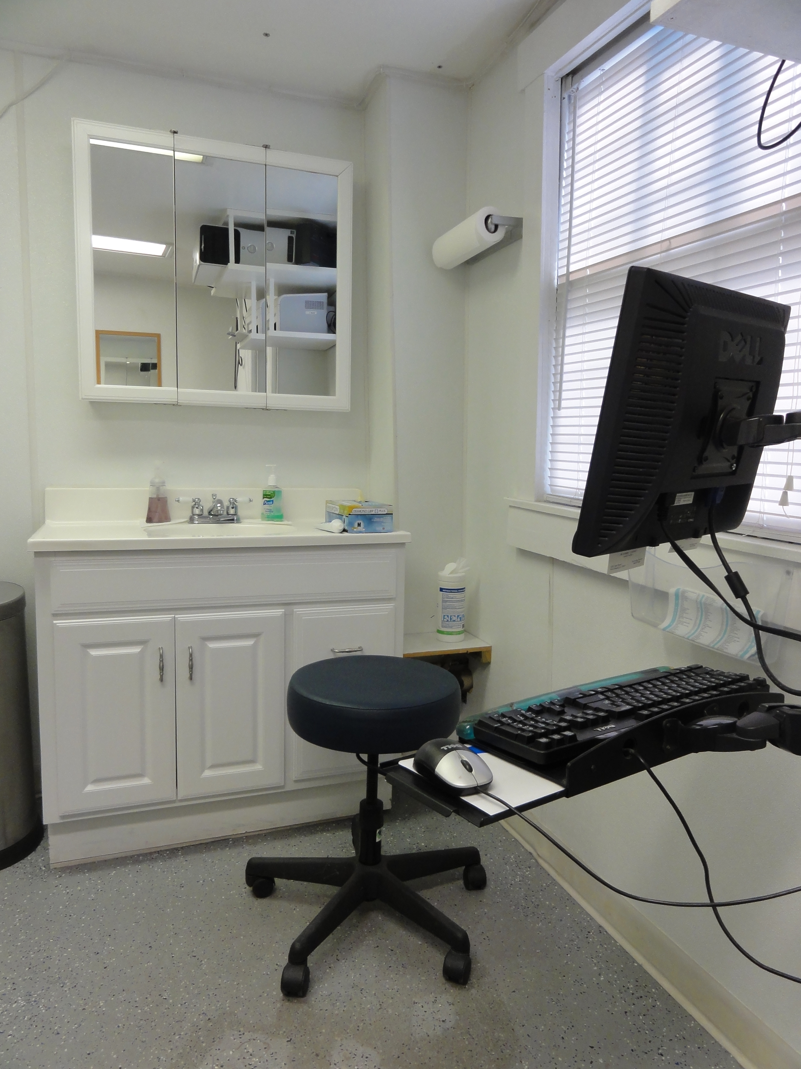 Interior of doctor's office, Mid-City New Orleans.